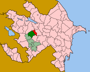 Map of Azerbaijan showing Tartar (Tərtər) rayon in red and dark green. The dark green portion is part of Nagorno-Karabakh (in green), where it makes up part of the province of Martakert.